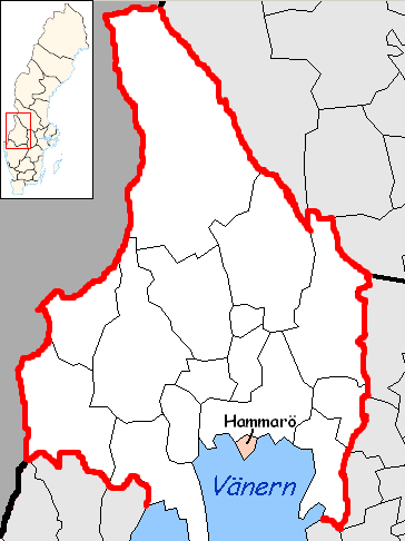 Hammarö Municipality in Värmland County Designd by me, based on Image:Värmland County.png